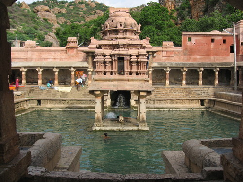 my own